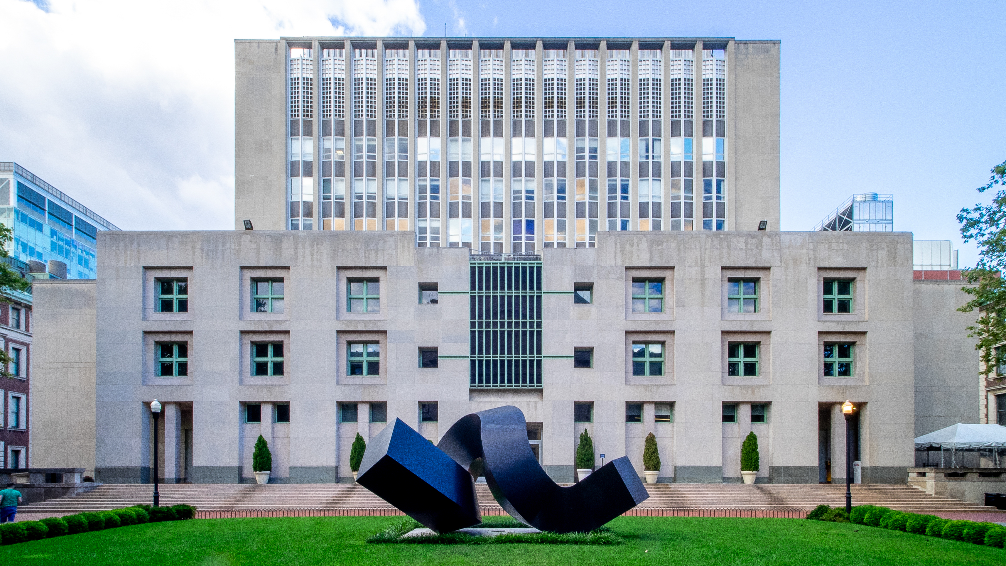 Morningside Heights, Manhattan, NYC